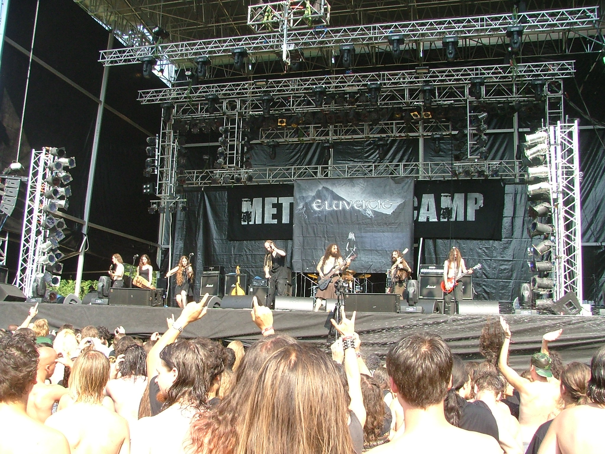 Swiss folk metal band Eluveitie at the Metalcamp in Tolmin